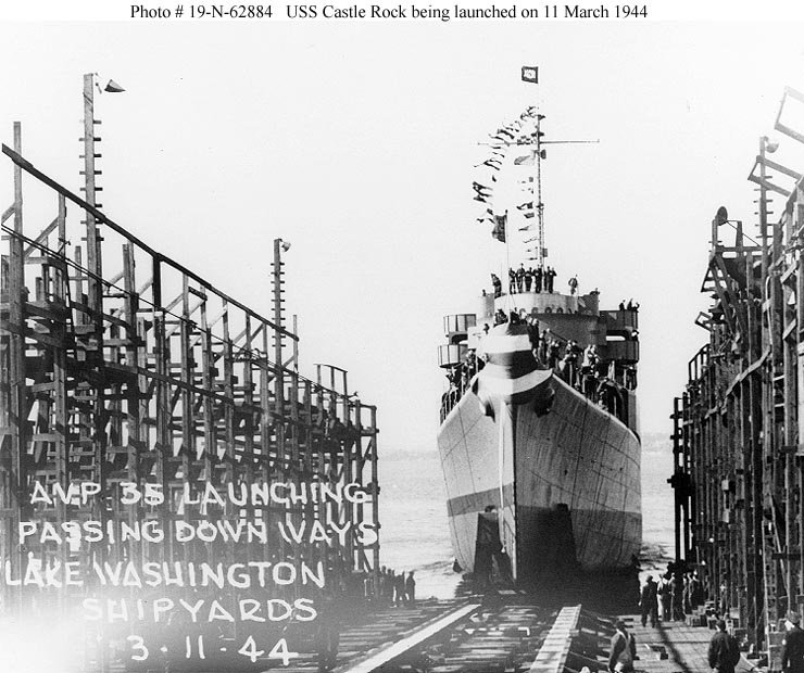 The launching of United States Navy seaplane tender USS Castle Rock (AVP-35) at Lake Washington Shipyard, Houghton, Washington